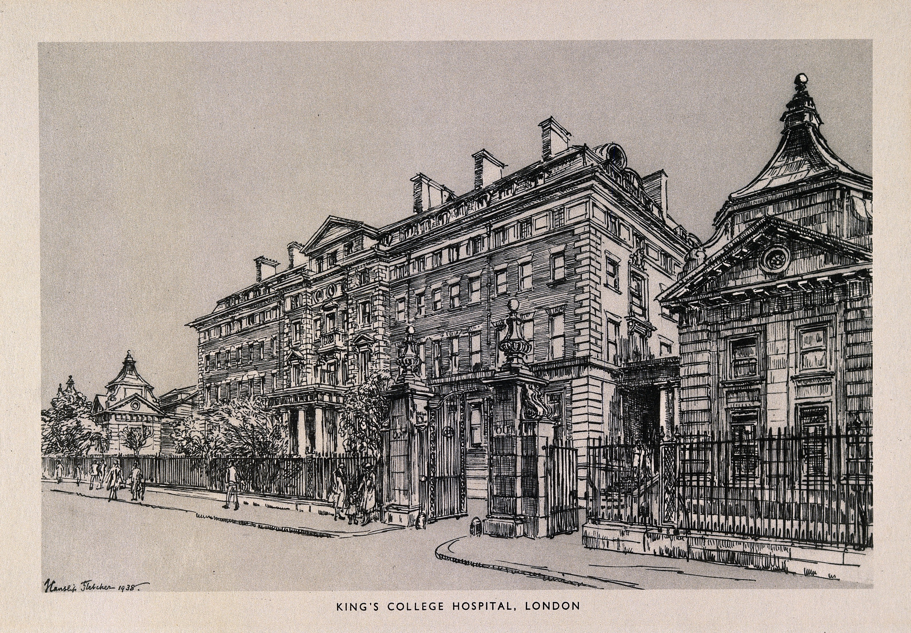 King's College Hospital, Denmark Hill, London: a three-quarter view of the entrance in Bessemer Road. Process print, [n.d.], after B. Hanslip Fletcher, 1938. Iconographic Collections Keywords: Hanslip Fletcher; William Alfred Pite; King's College Hospital (London)